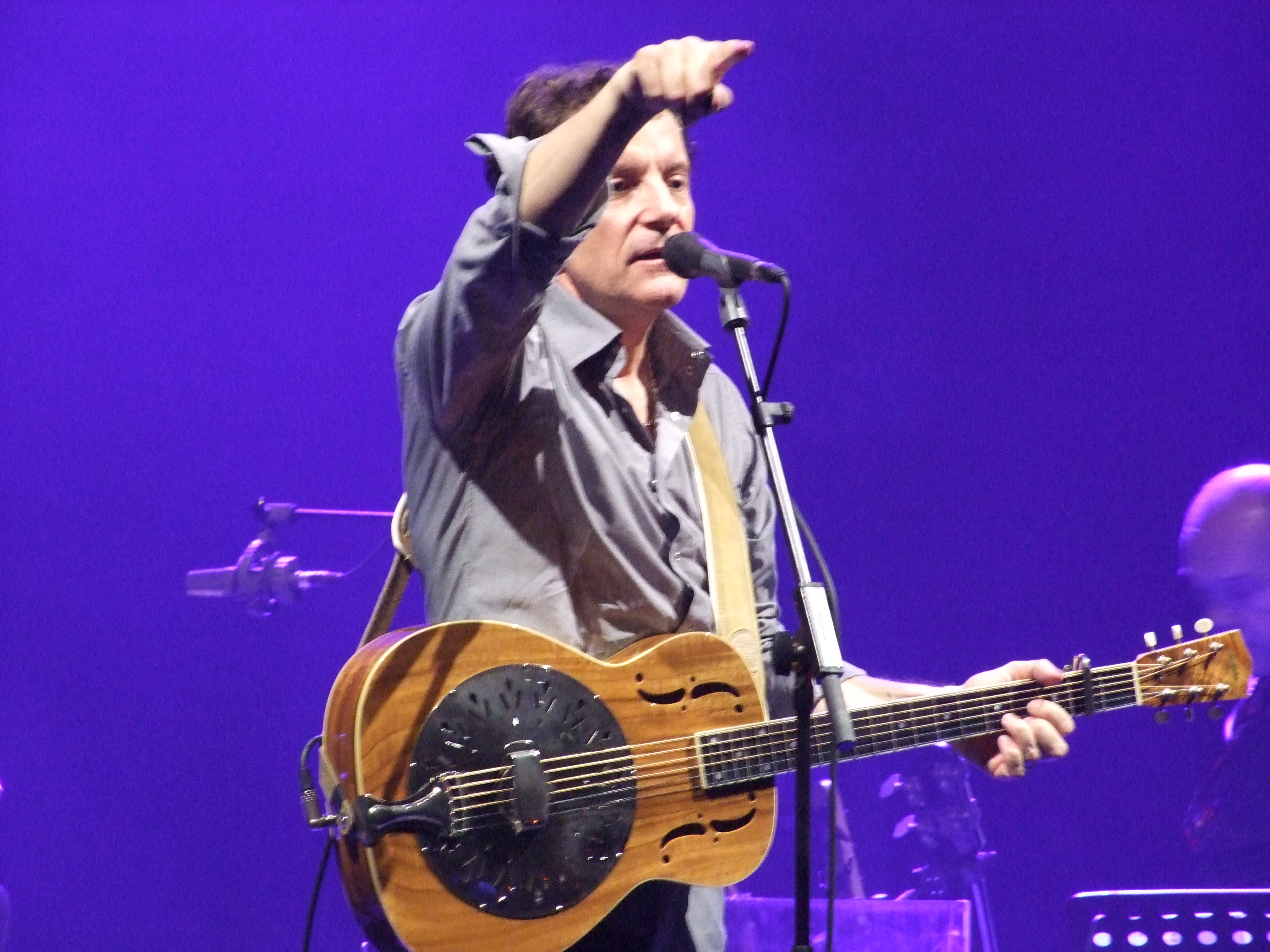 French singer Francis Cabrel performs at Bruxelles Forest National 01-11-2008, picture made from between the audience, made with available light.